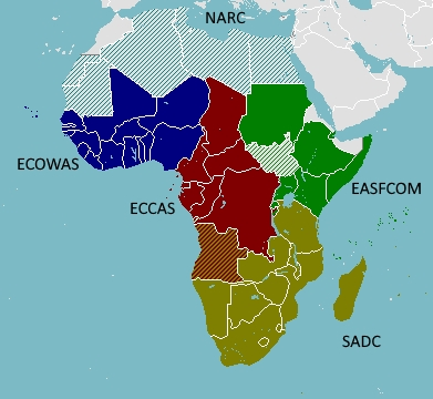 Map of the partitioning of Regional Economic Communities and Regional Mechanisms of the African Standby Force in the African Continent in April 2014.